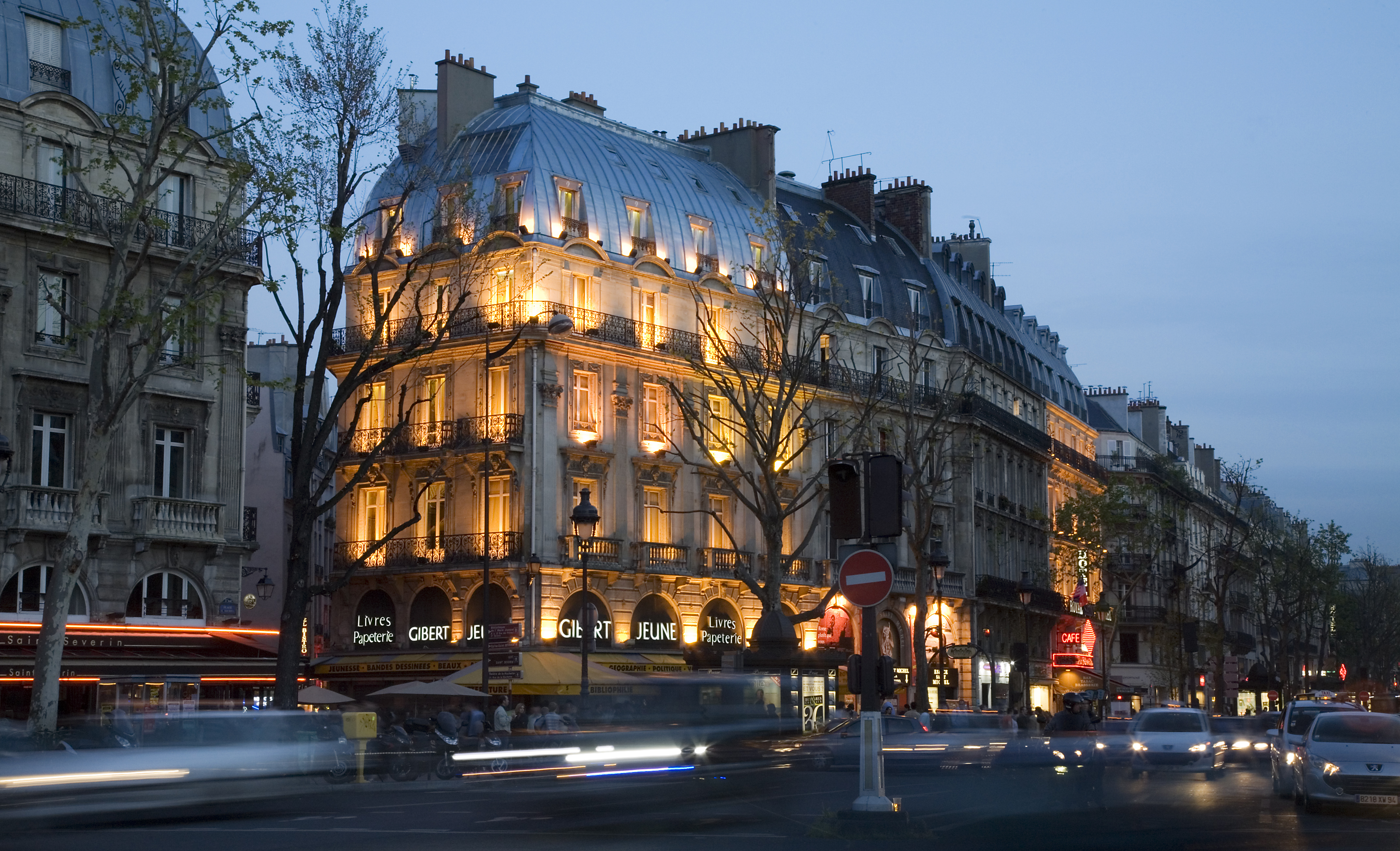 Gibert Jeune, 5 place Saint-Michel and traffic in the Rive Gauche, Boulevard Saint-Michel, Ve arrondissement, Paris, France.